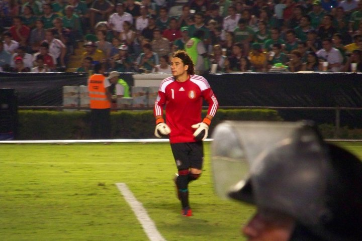 Memo Ochoa en el estadio de Tigres.